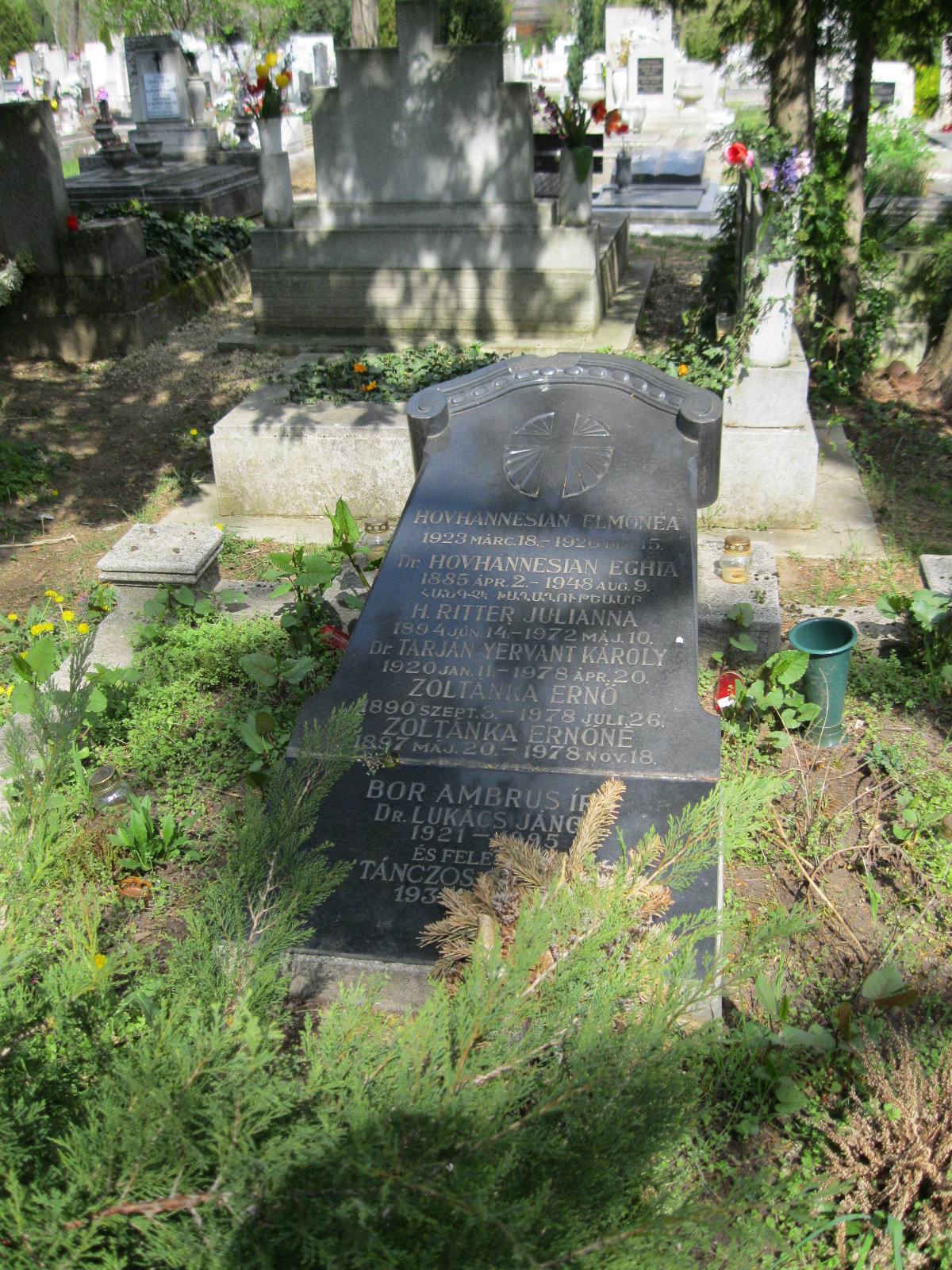 Tomb of Ambrus Bor in Gödöllő Urban Cemetery.